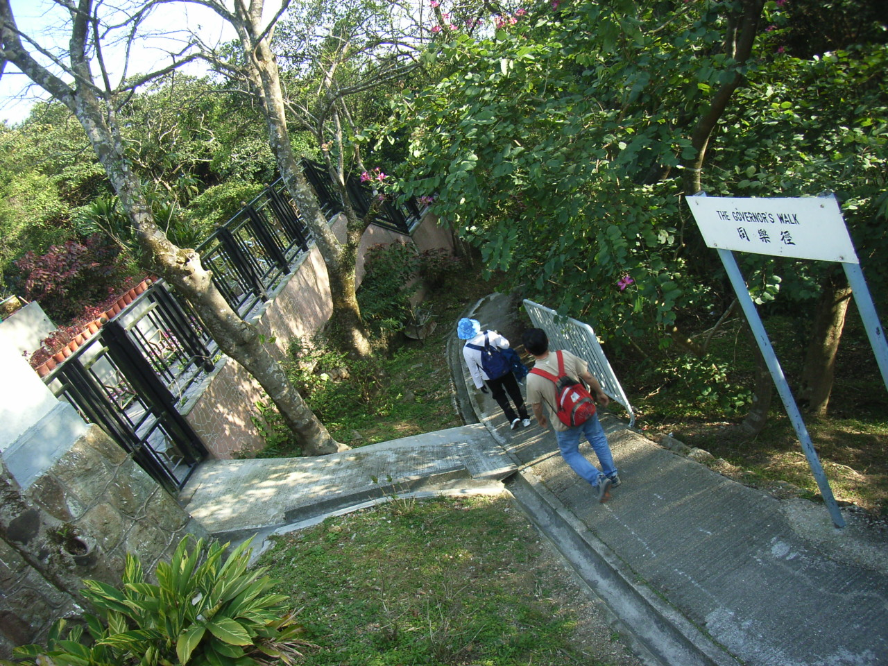 Victoria Peak Garden, Mount Austin Road, Victoria Peak, Hong Kong Photographer and author is ParkerStarS.